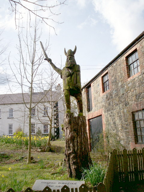 Magnus Barefoot, The Viking This is one of the wooden sculptures in Tannaghmore Gardens.